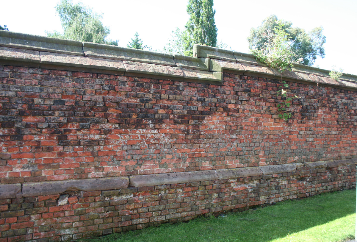 Elizabethan garden wall of demolished Townsend House, King's Lane, Nantwich, Cheshire